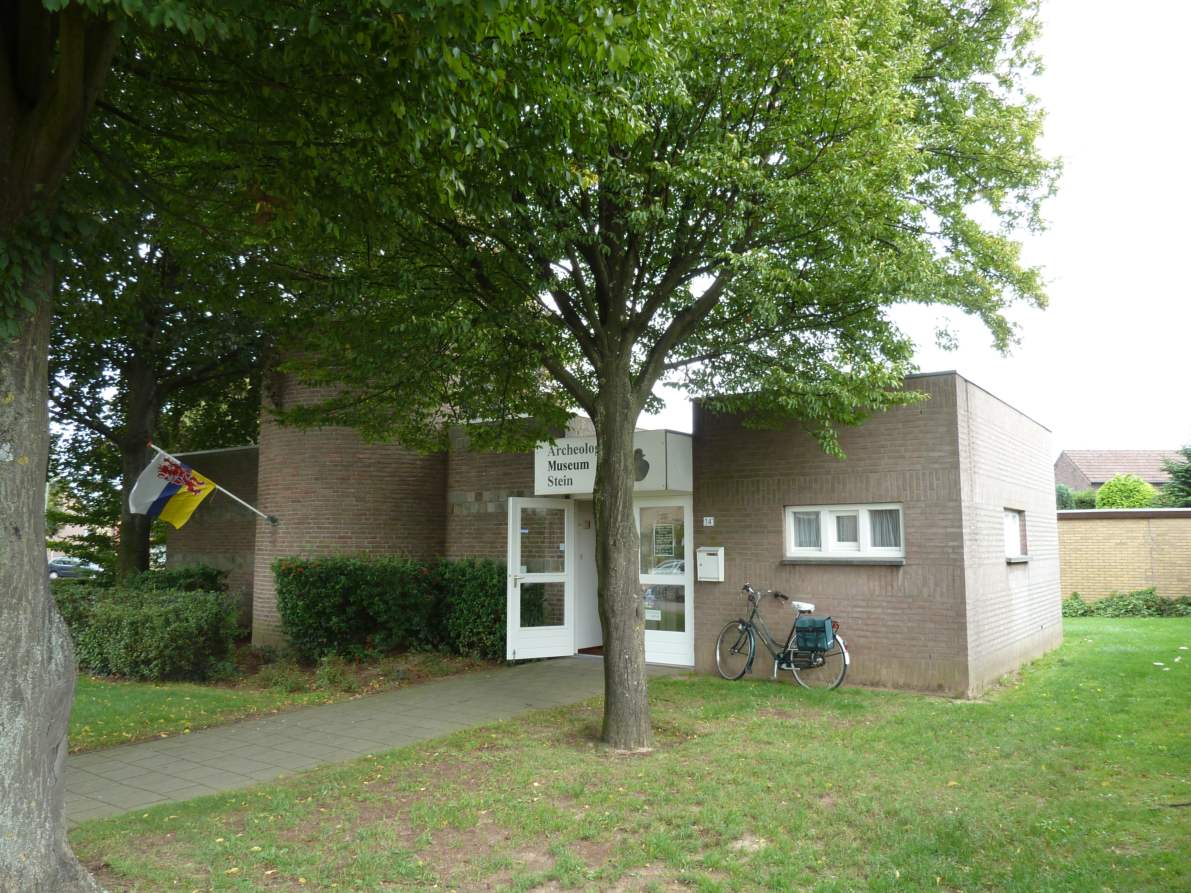 Museum of Archeology, Stein, Limburg, the Netherlands